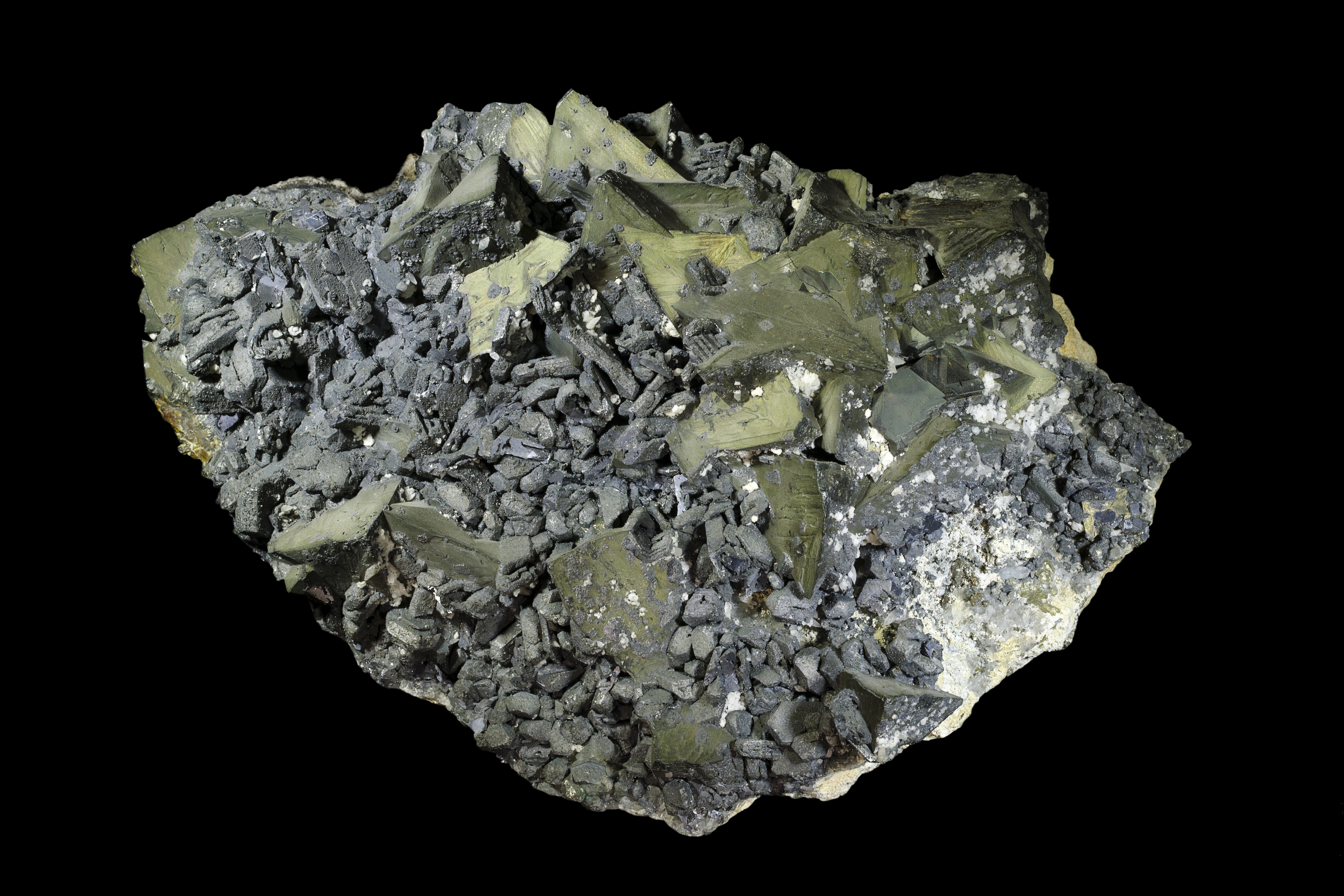 Tetrahedrite and galena Locality: Huaron Mines, Huaron Mining District, San Jose de Huayllay District, Cerro de Pasco, Daniel Alcides Carrión Province, Pasco Department, Peru Size :23 x 15 x 7 cm